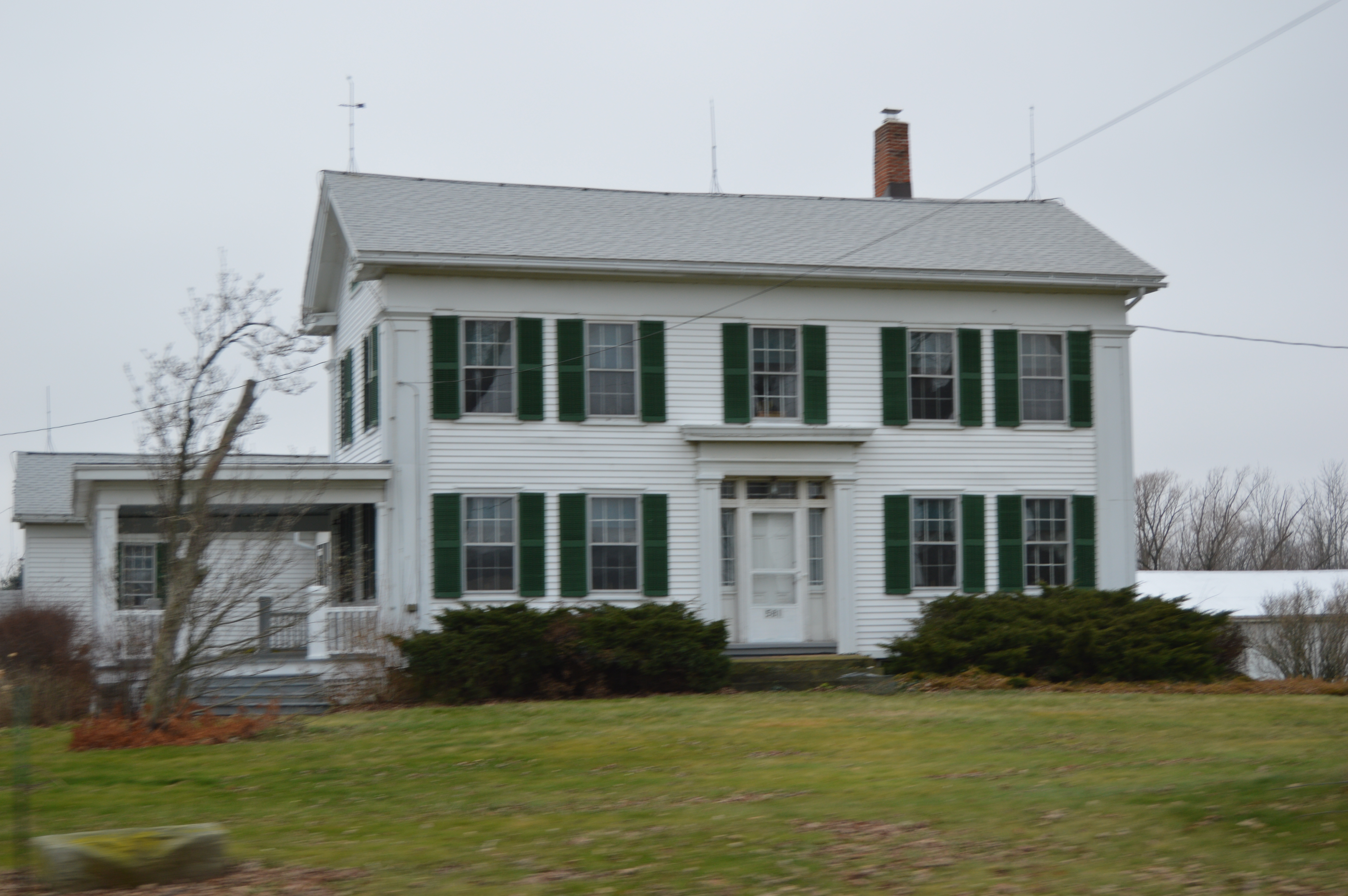 Front of the Miller-Bissell Farmhouse, located at 581 State Route 60 north of New London in New London Township, Huron County, Ohio, United States. Built in 1845, the house and associated farm buildings are listed on the National Register of Historic Places.